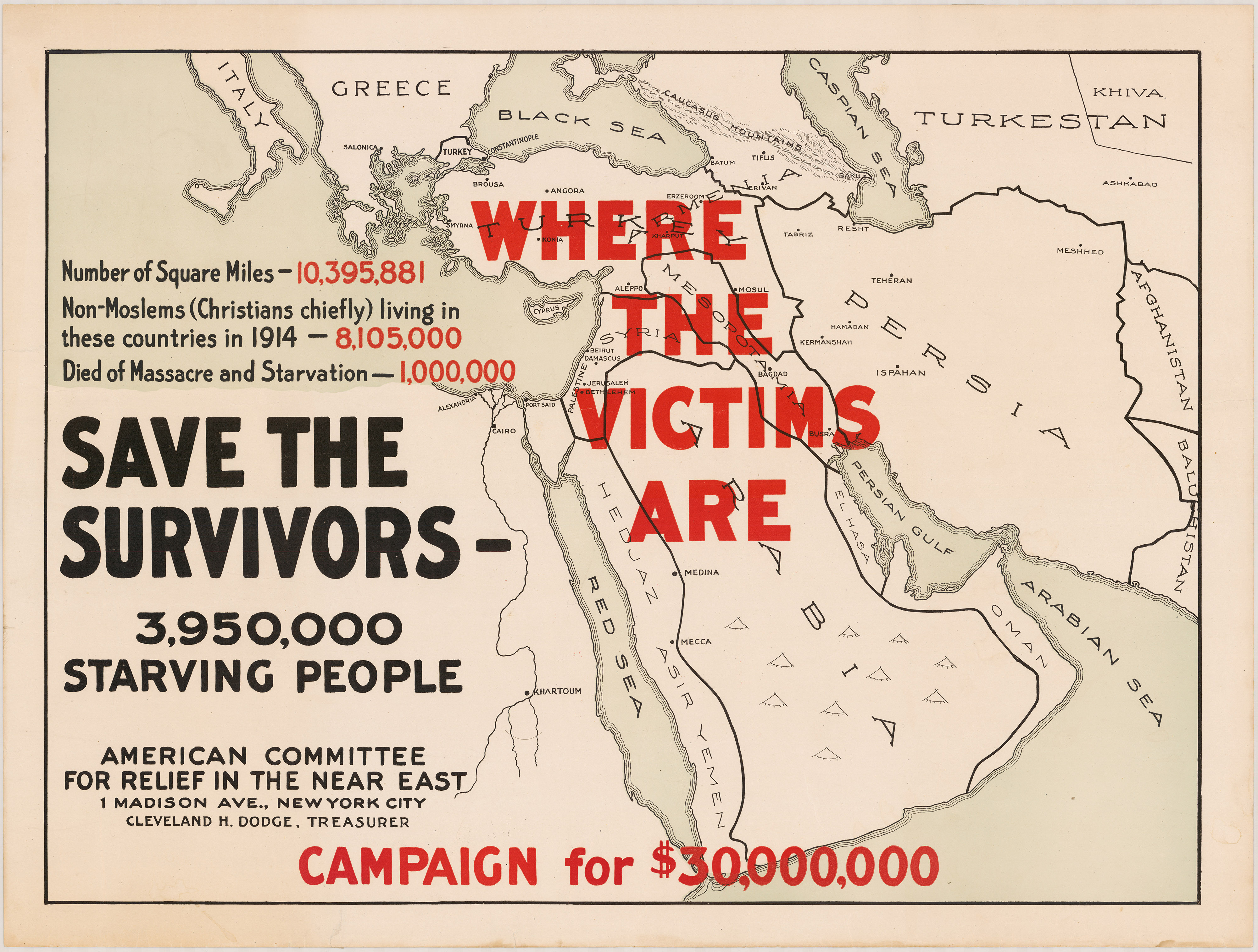 Poster from the special campaign of the American Committee for Armenian and Syrian Relief (renamed by 1916 the American Committee for Relief in the Near East, which worked energetically throughout the war to raise funds and provide relief.